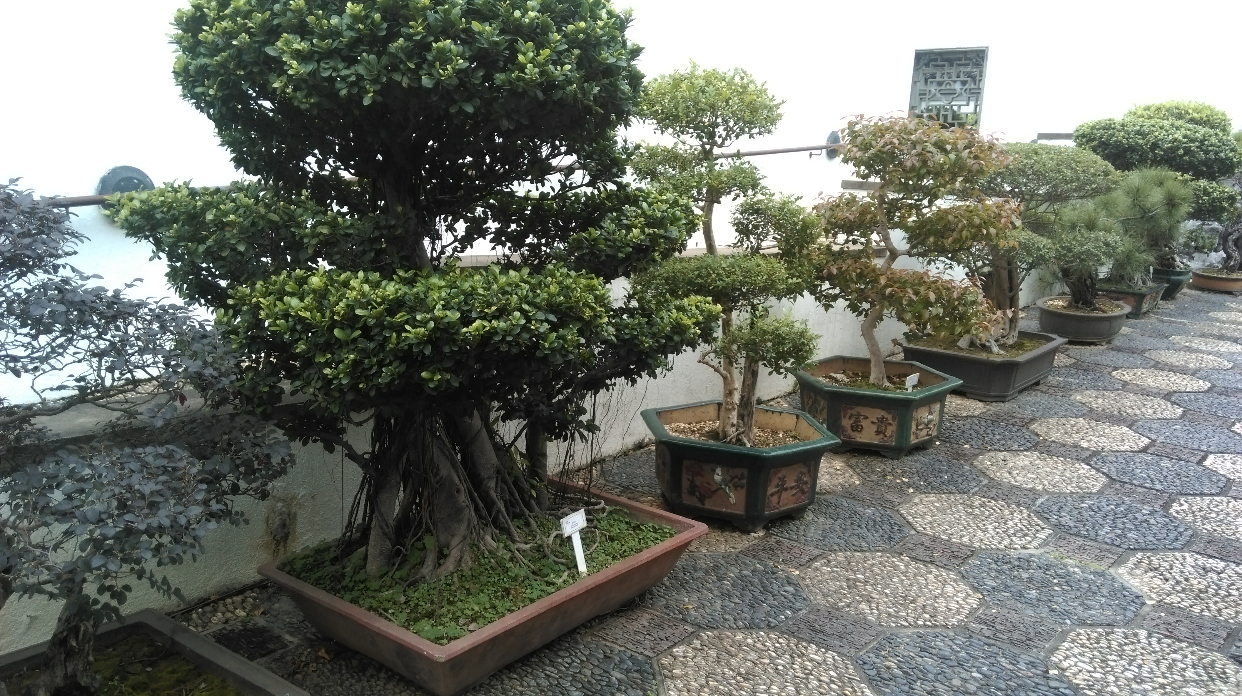 The Kwong Yam Square in Kowloon Walled City Park